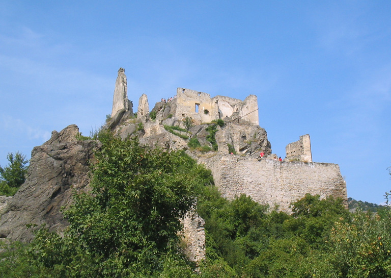 Ruin of the castle of Dürnstein, Wachau, Austria.